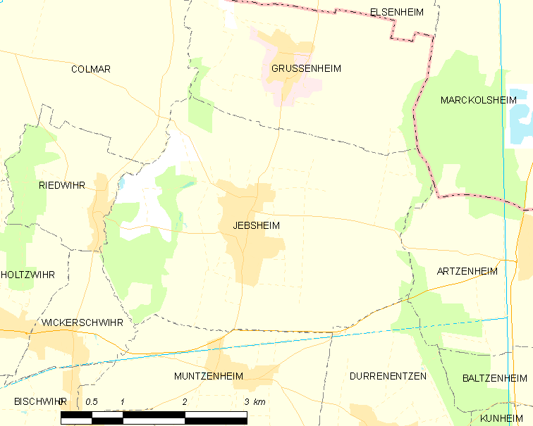 Map of French municipality